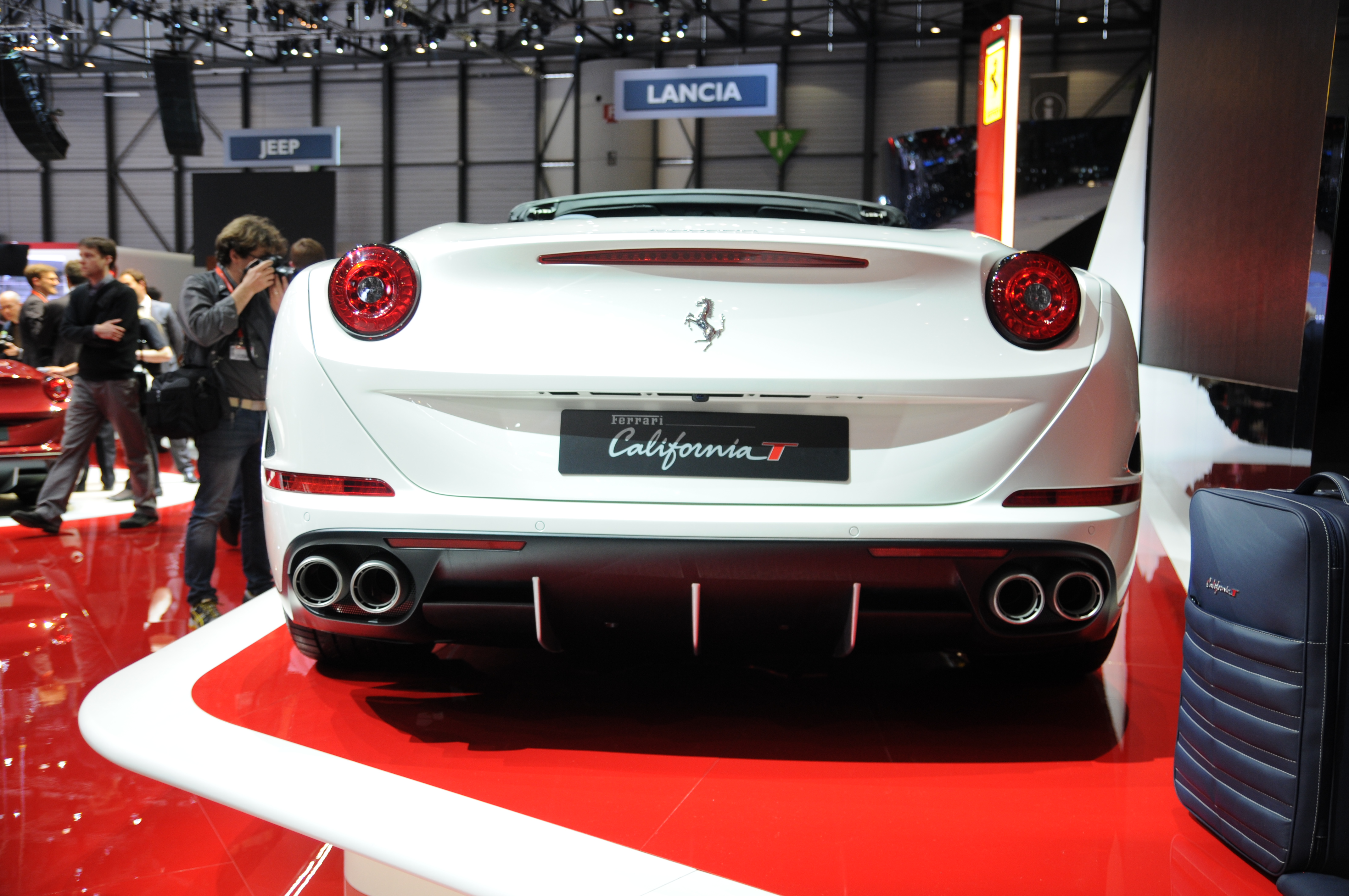 Geneva Motor Show 2014 (photo taken on the first press day)